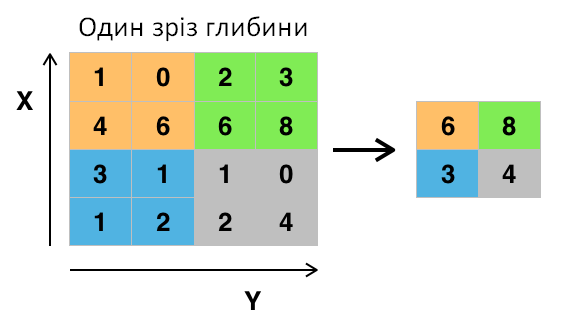 max_pooling with 2x2 filter and stride = 2 (in Ukrainian)